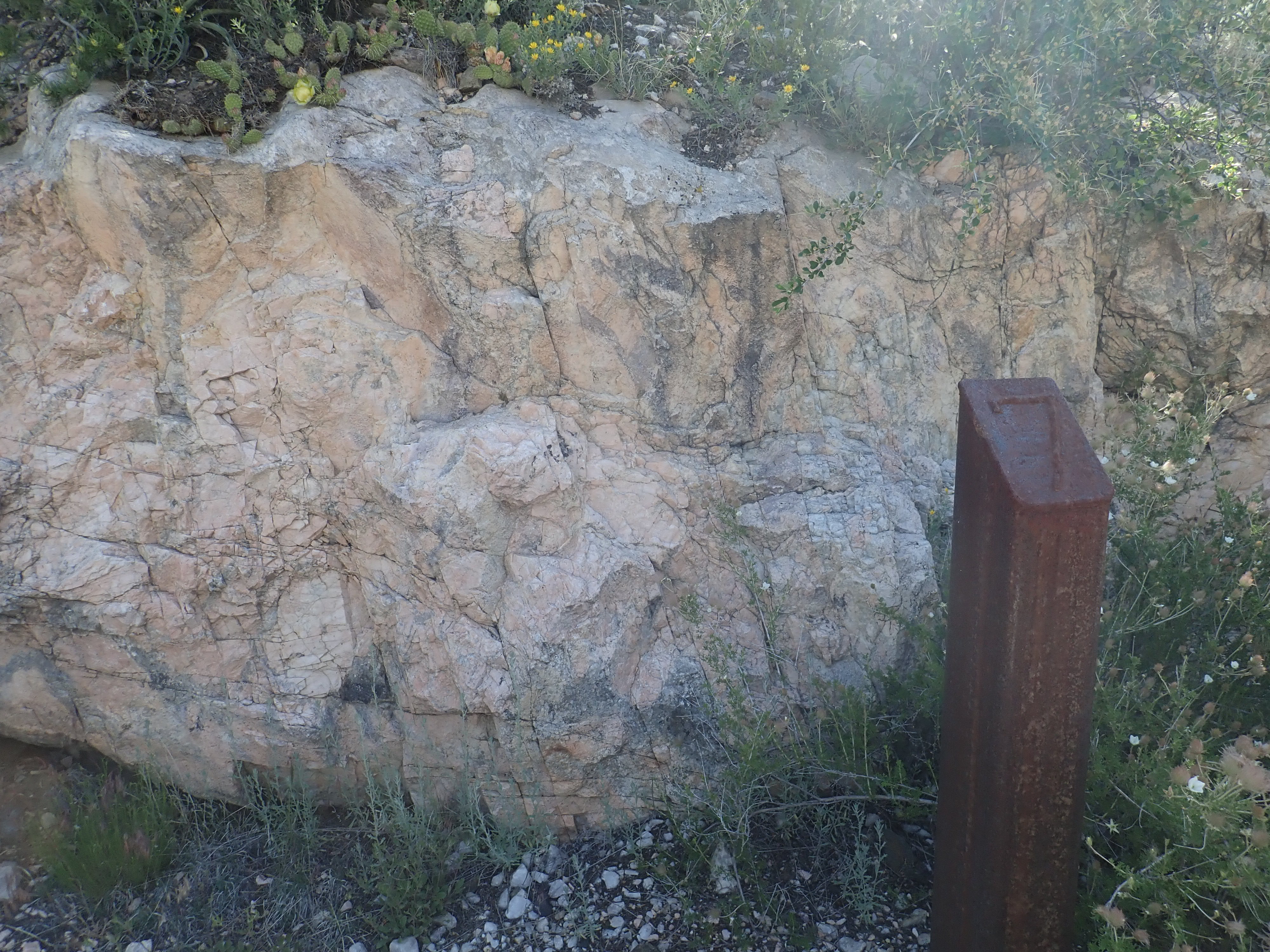 This shows the aplite zone at the base of the Harding pegmatite.